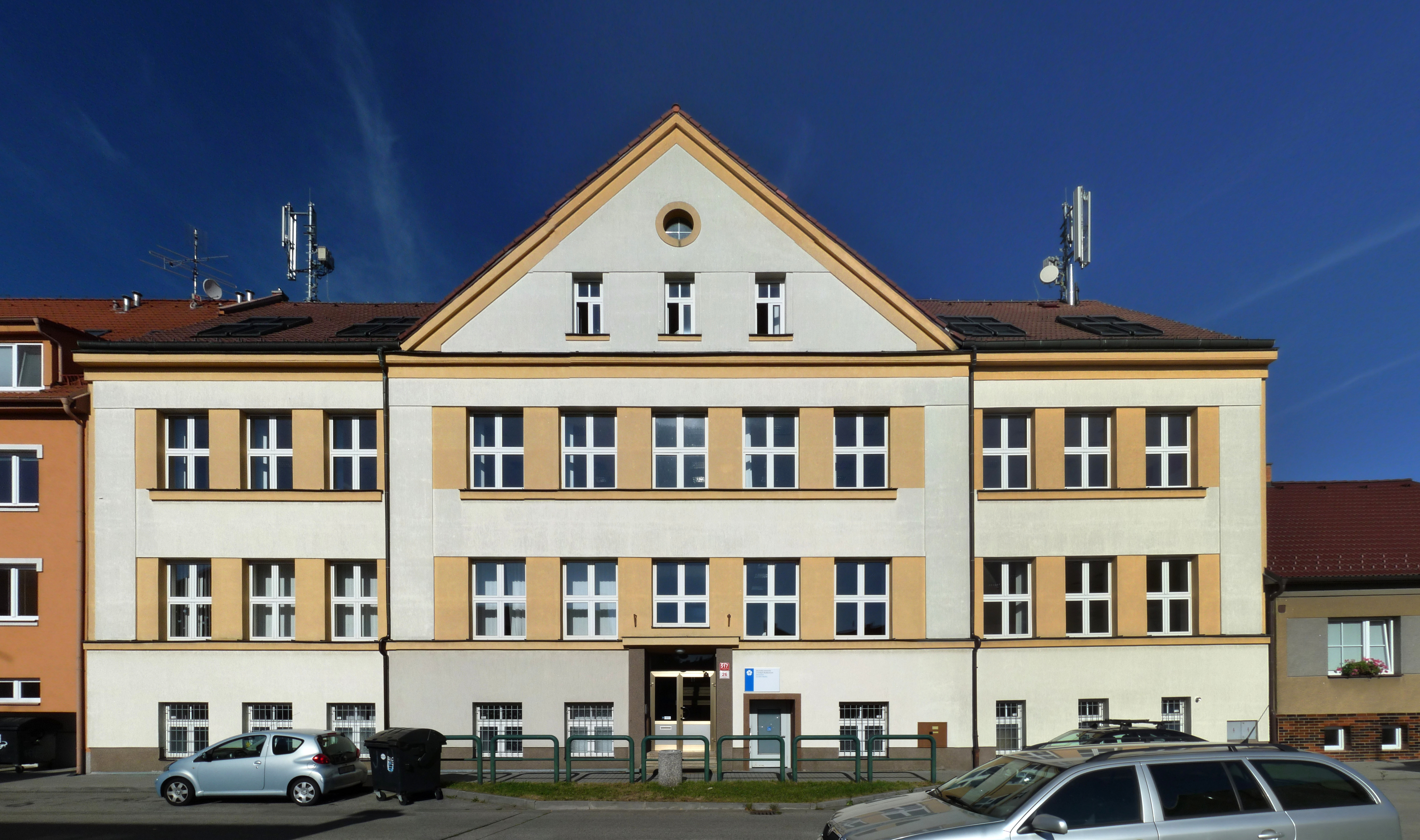 Faculty of Health and Social Studies, University of South Bohemia, former primary school, U Výstaviště Street in the town of České Budějovice, South Bohemian Region, Czech Republic.